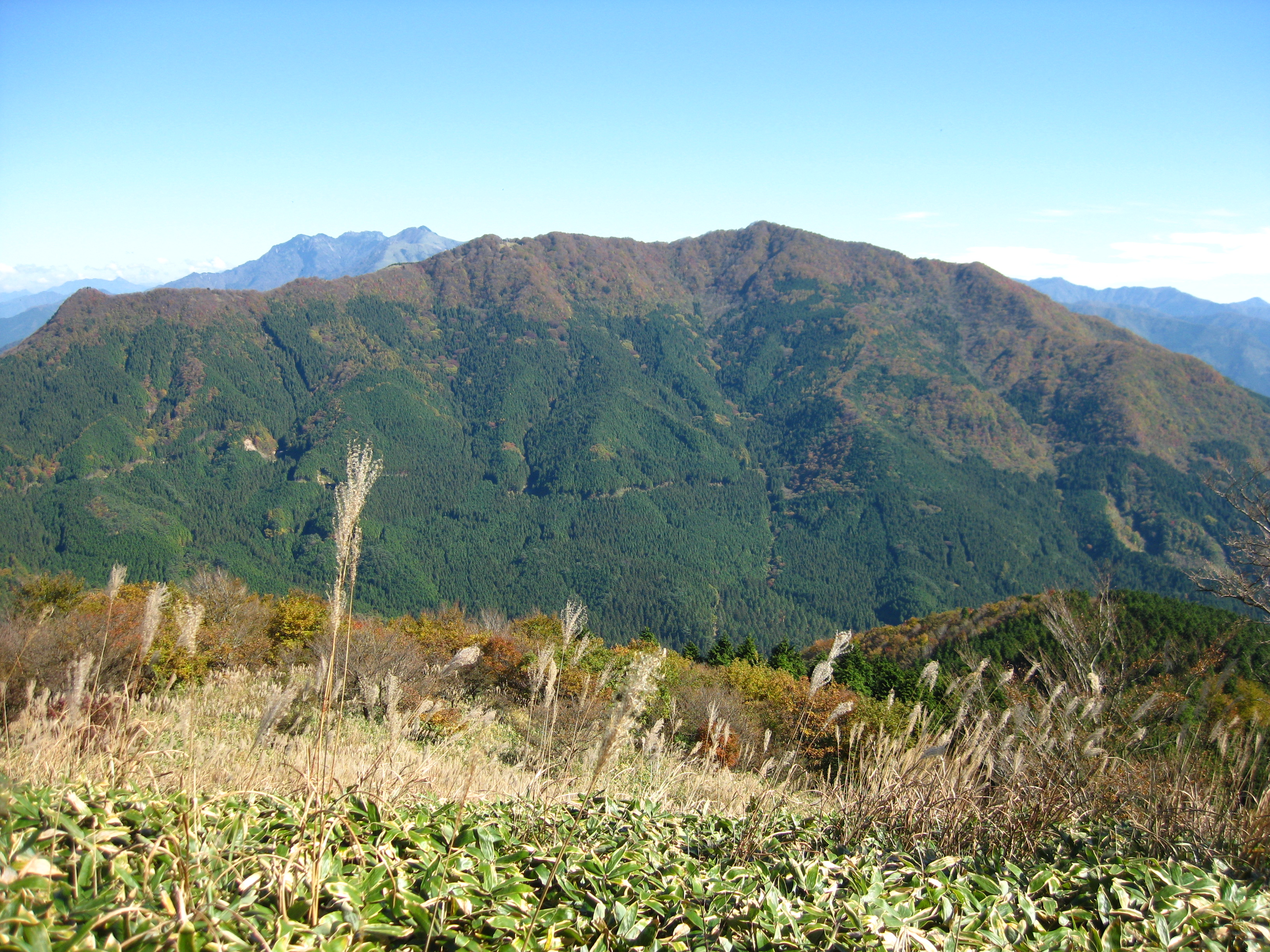 Mount Ishizumi as seen from the west in Kumakogen, Ehime Prefecture, Japan.